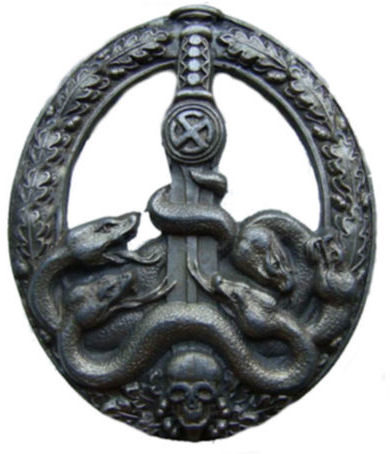 German Anti-Partisan Guerrilla Warfare Badge - 1944